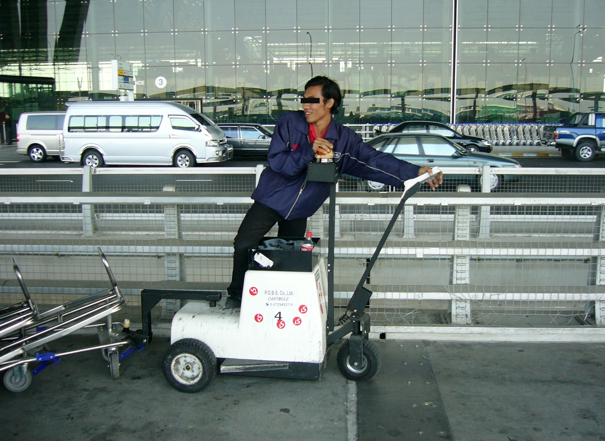 Cart Mule at Suvarnabhumi International Airport, Thailand — an electric vehicle for trolley cart collection -- (not properly used, because it is not designated for human transport).